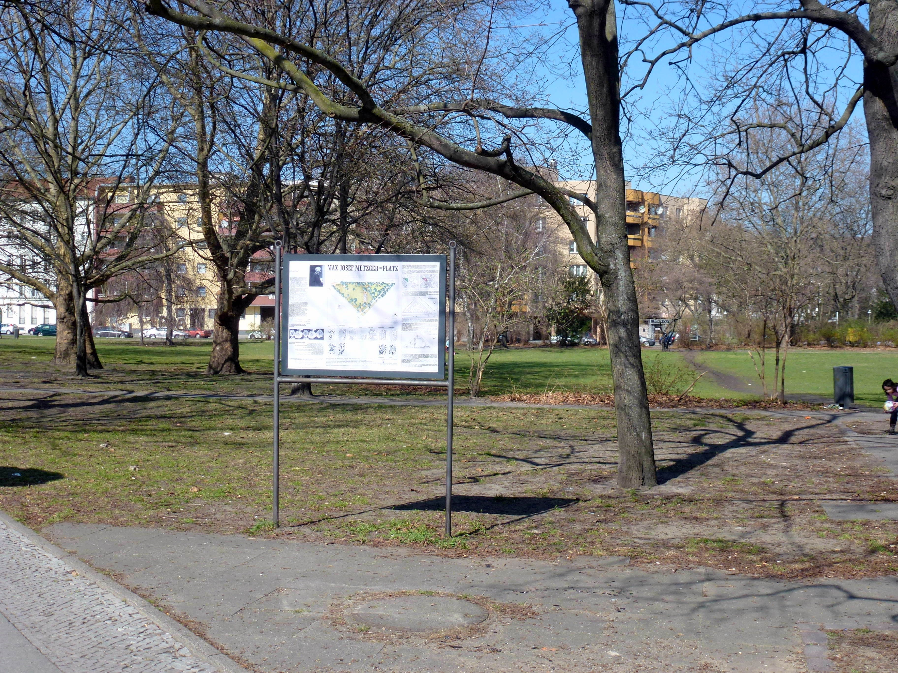 Berlin-Wedding Max-Josef-Metzger-Platz